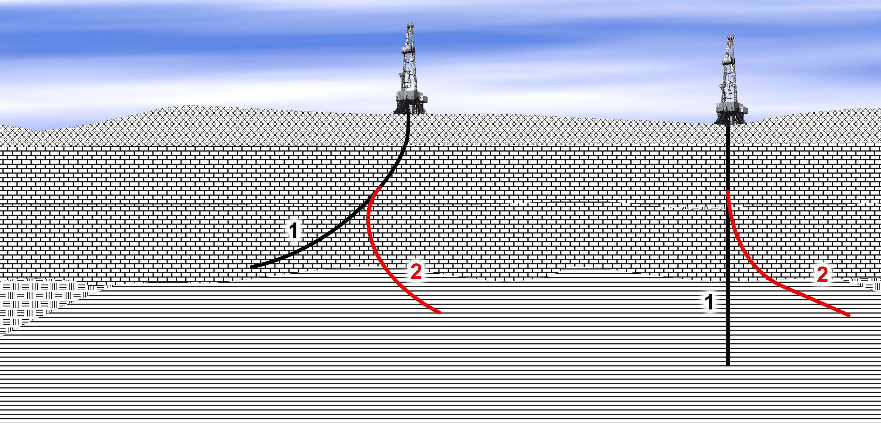 Curve trajectory of well - diagram.